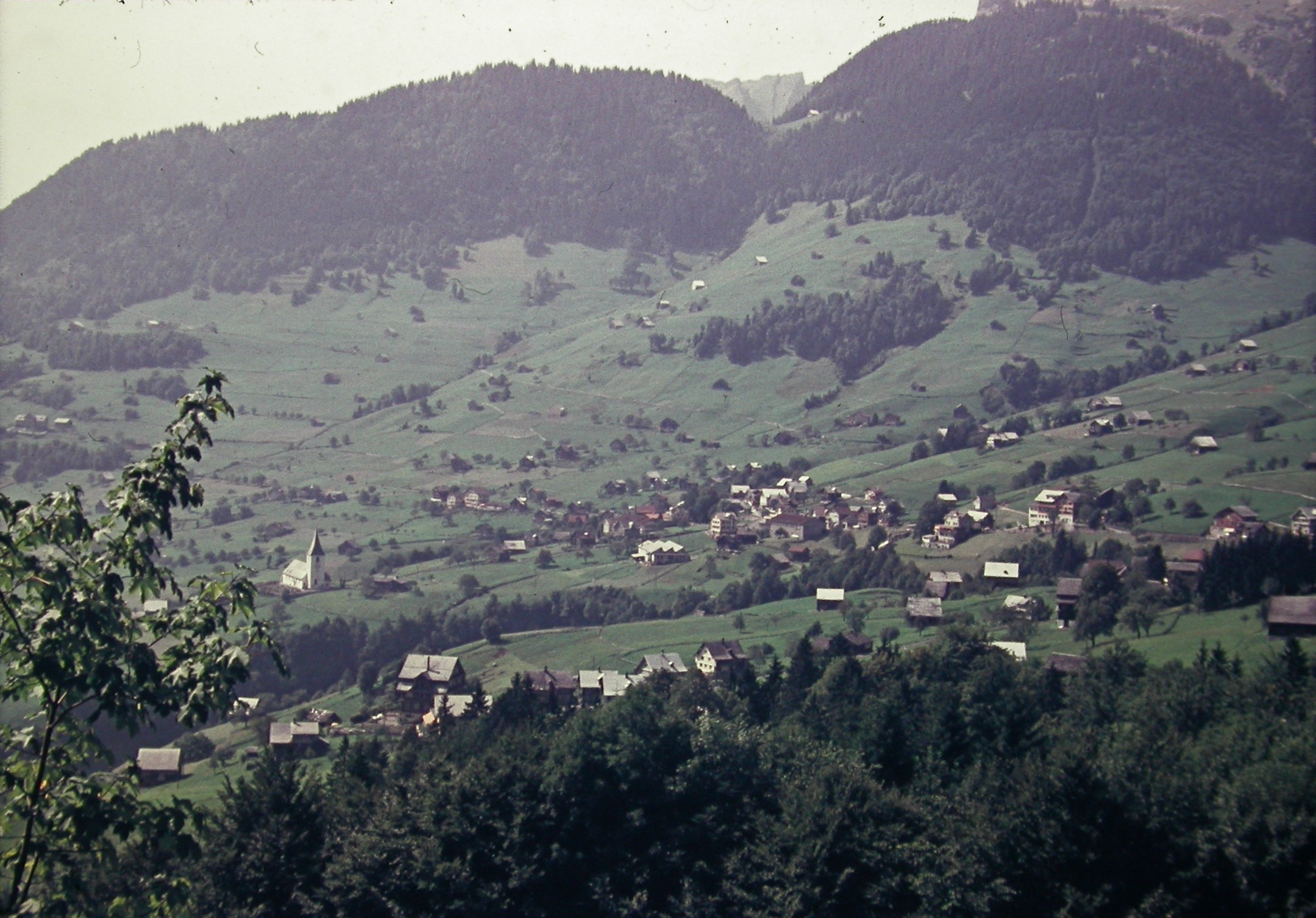 Amden in 1956